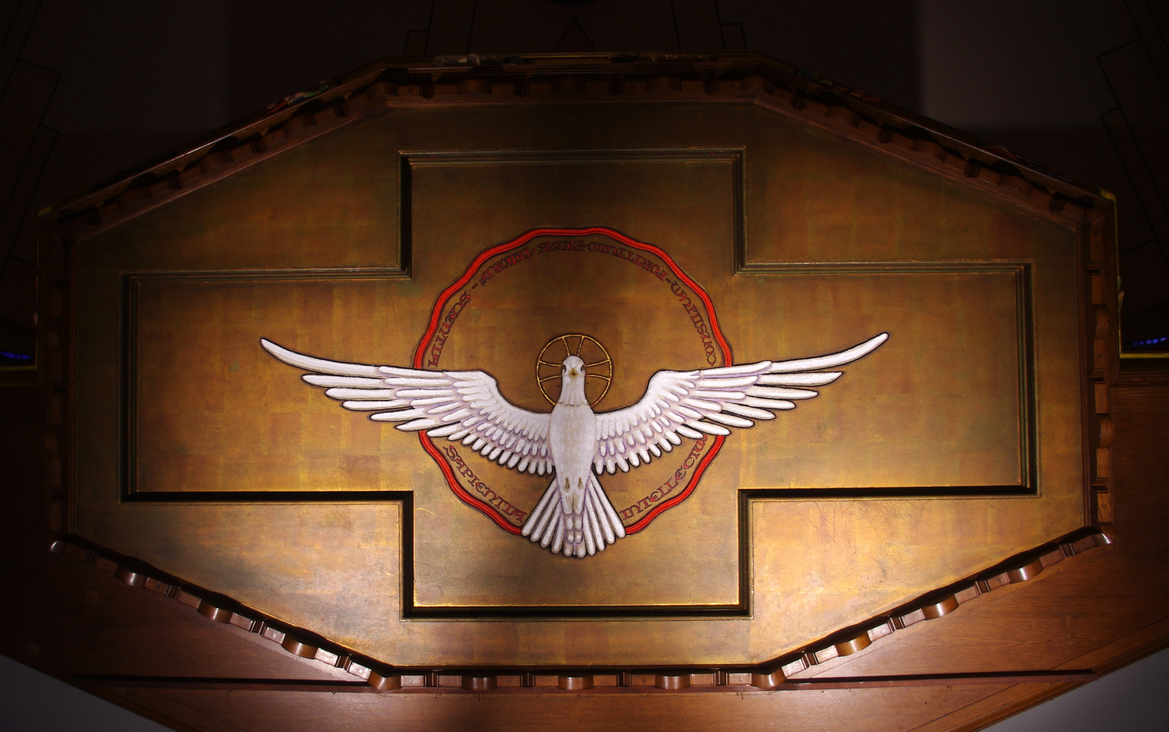 National Shrine of the Little Flower (Royal Oak, MI) - ambo detail, the Holy Spirit and His gifts